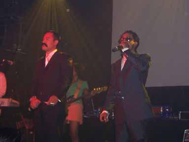 Handsome Boy Modeling School at Irvin Plaza, NYC - 4/20/05